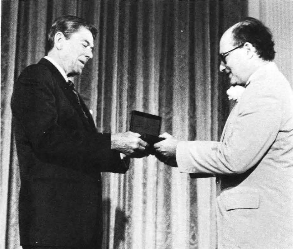 California Institute of Technology Professor Seymour Benzer